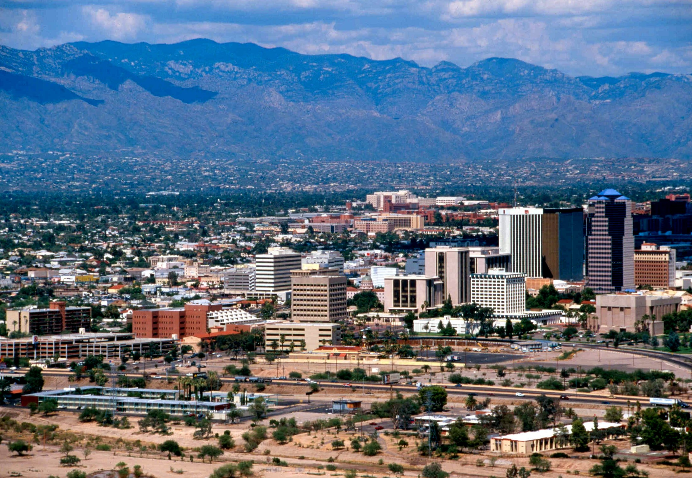 Tucson, Arizona, with the Santa Catalina Mountains in the background.